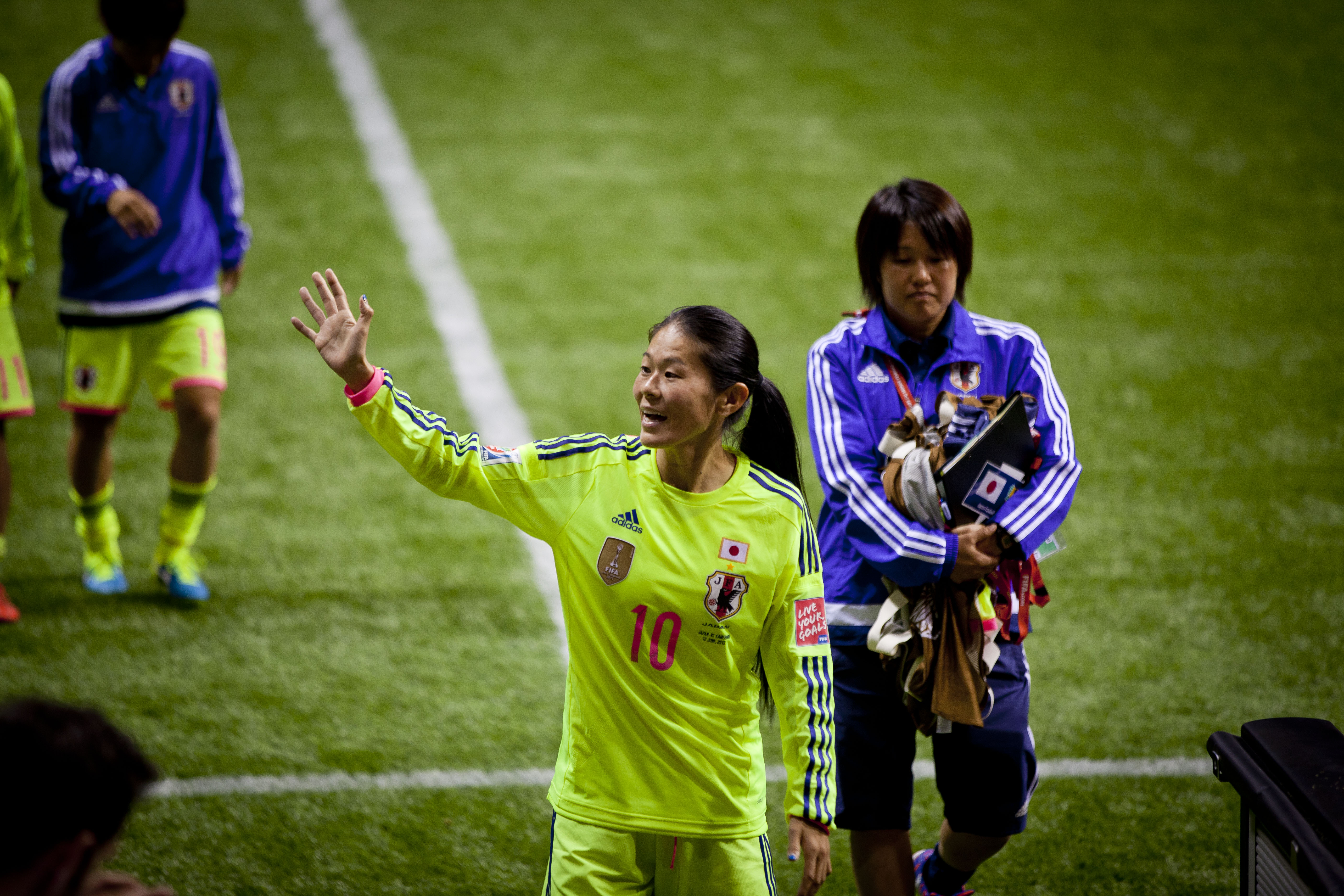 FIFA Women's World Cup Canada June 12th, 2015